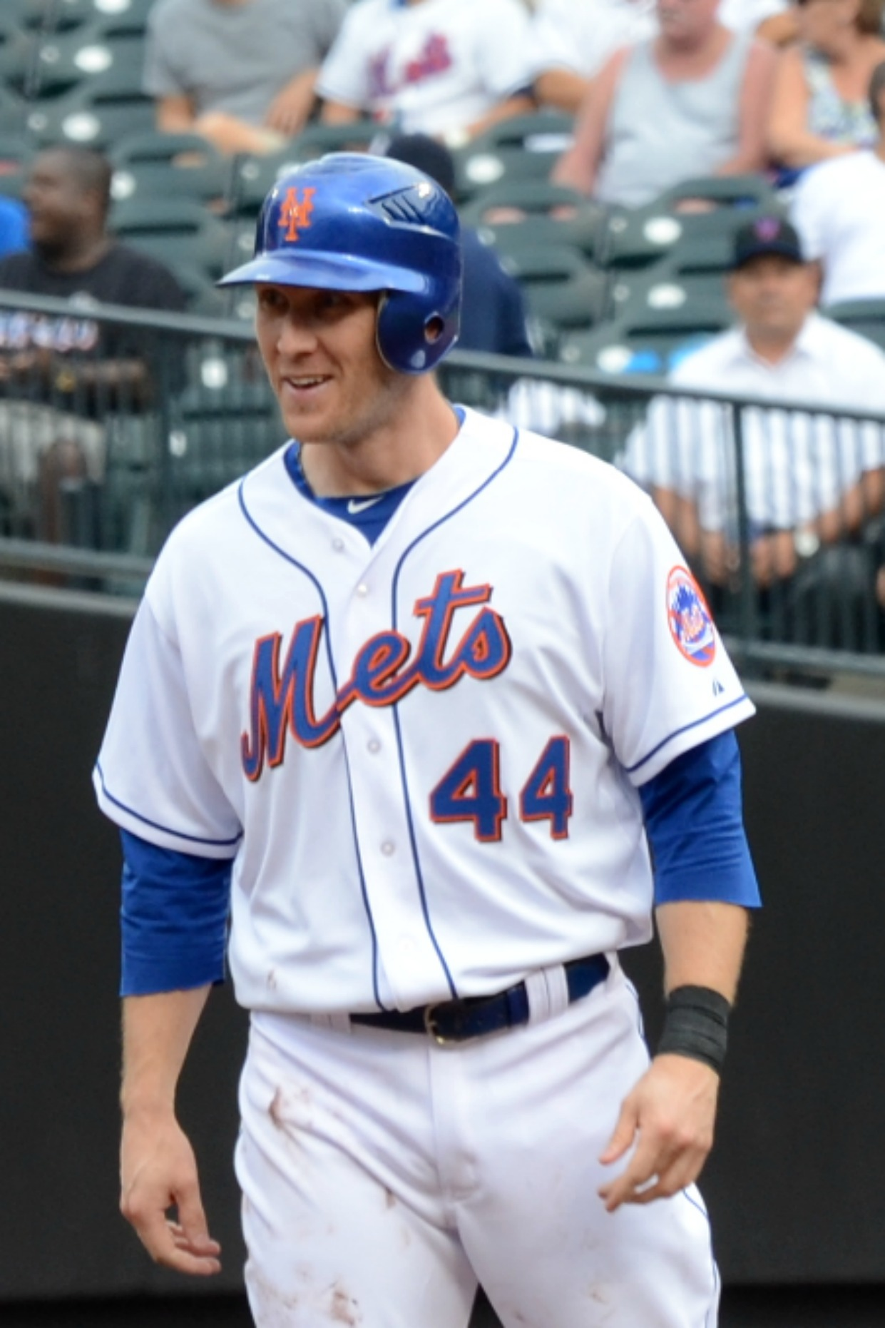 Jason Bay on 2nd base during a game on September 15, 2011 for the New York Mets